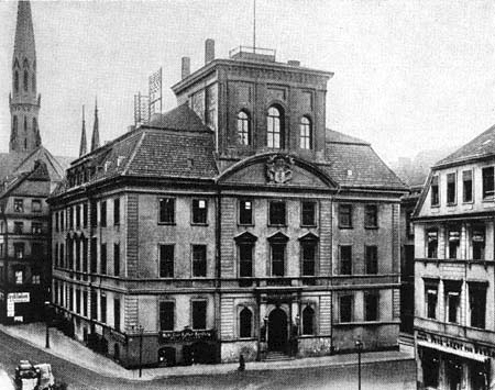 The Cölln Townhall um 1880